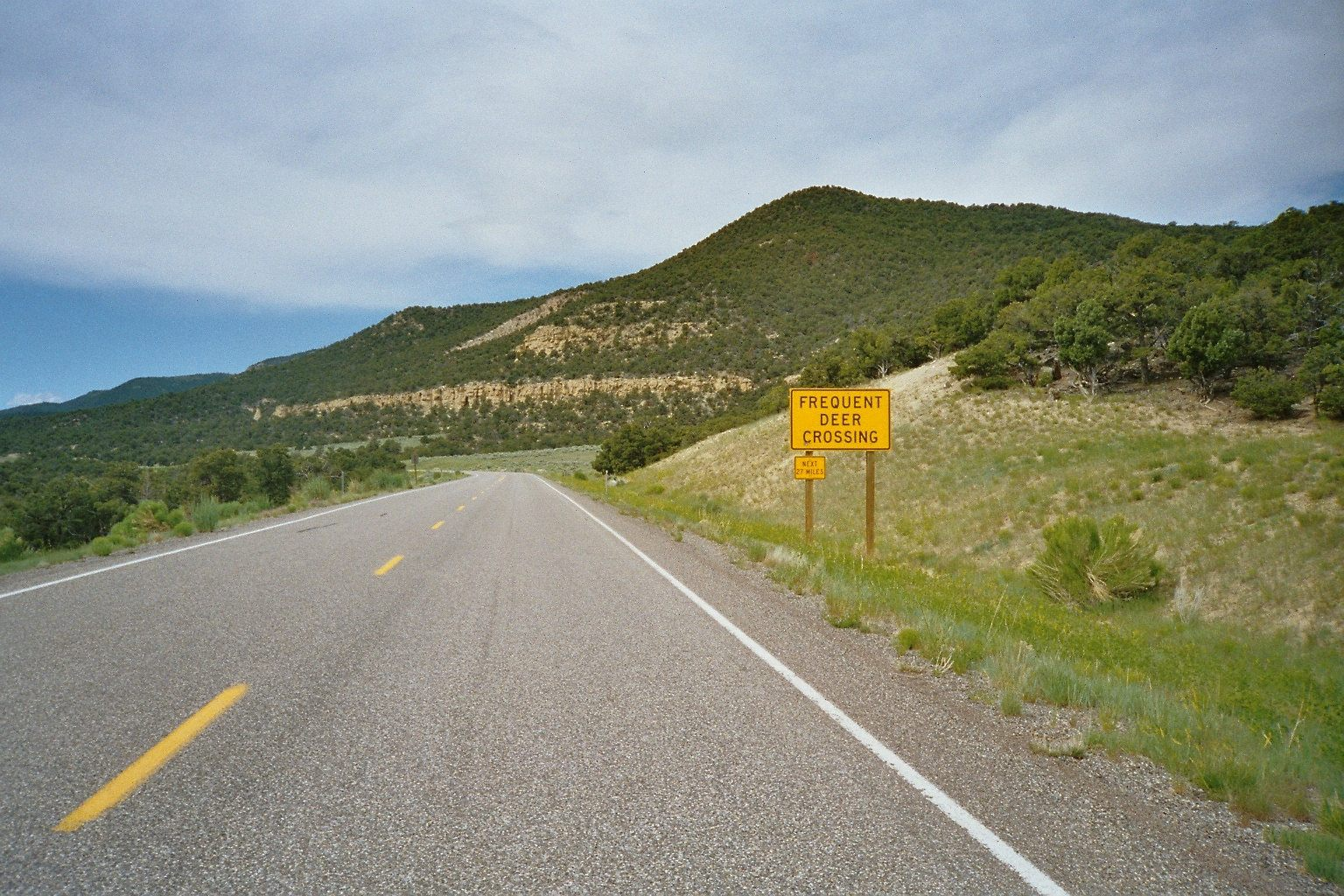 Sevier County (UT) SR 72s Fishlake Forrest, picture taken by myself in June 2005, author: R.Blauert Dk4hb